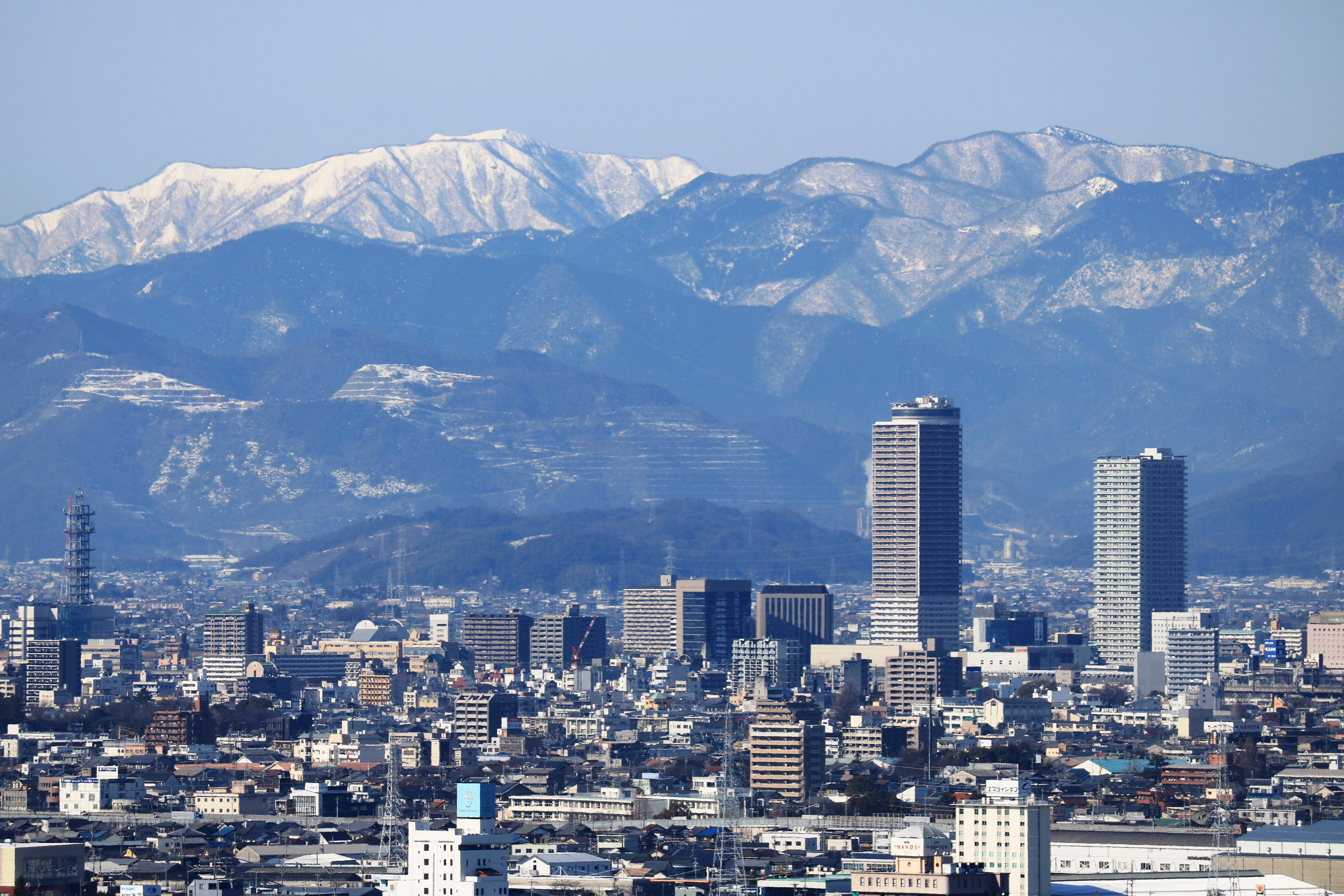 Gifu City Tower 43 and Gifu Sky Wing 37 from Twinarch138 and Gifu Sky Wing 37 seen from Twinarch138 in Gifu prefecture, Japan.